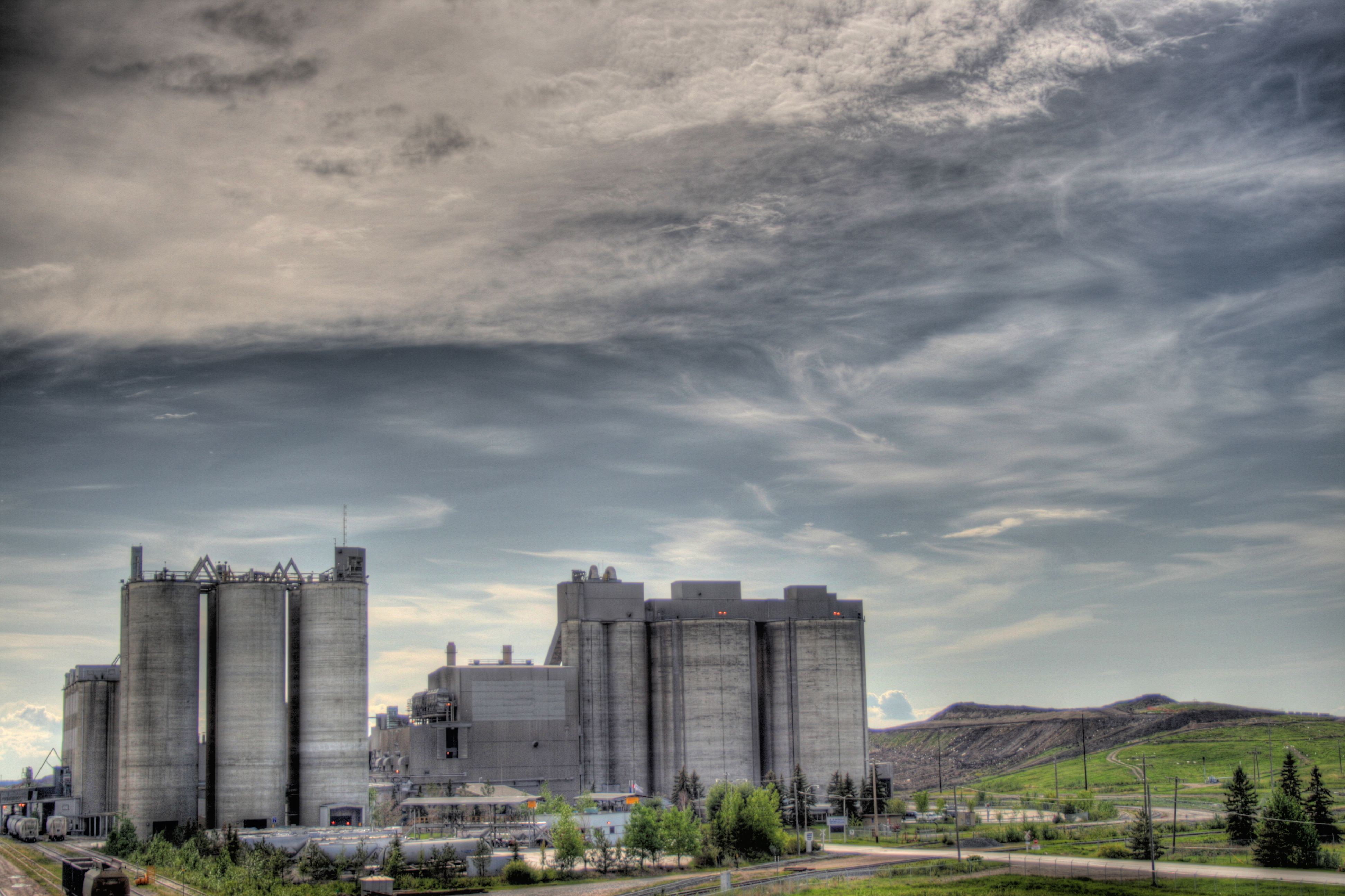 The Inland Cement Plant in Edmonton, Alberta, Canada.